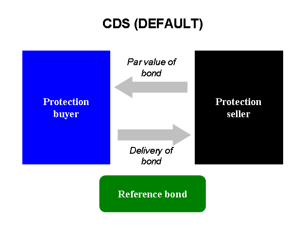 Credit Default Swap default